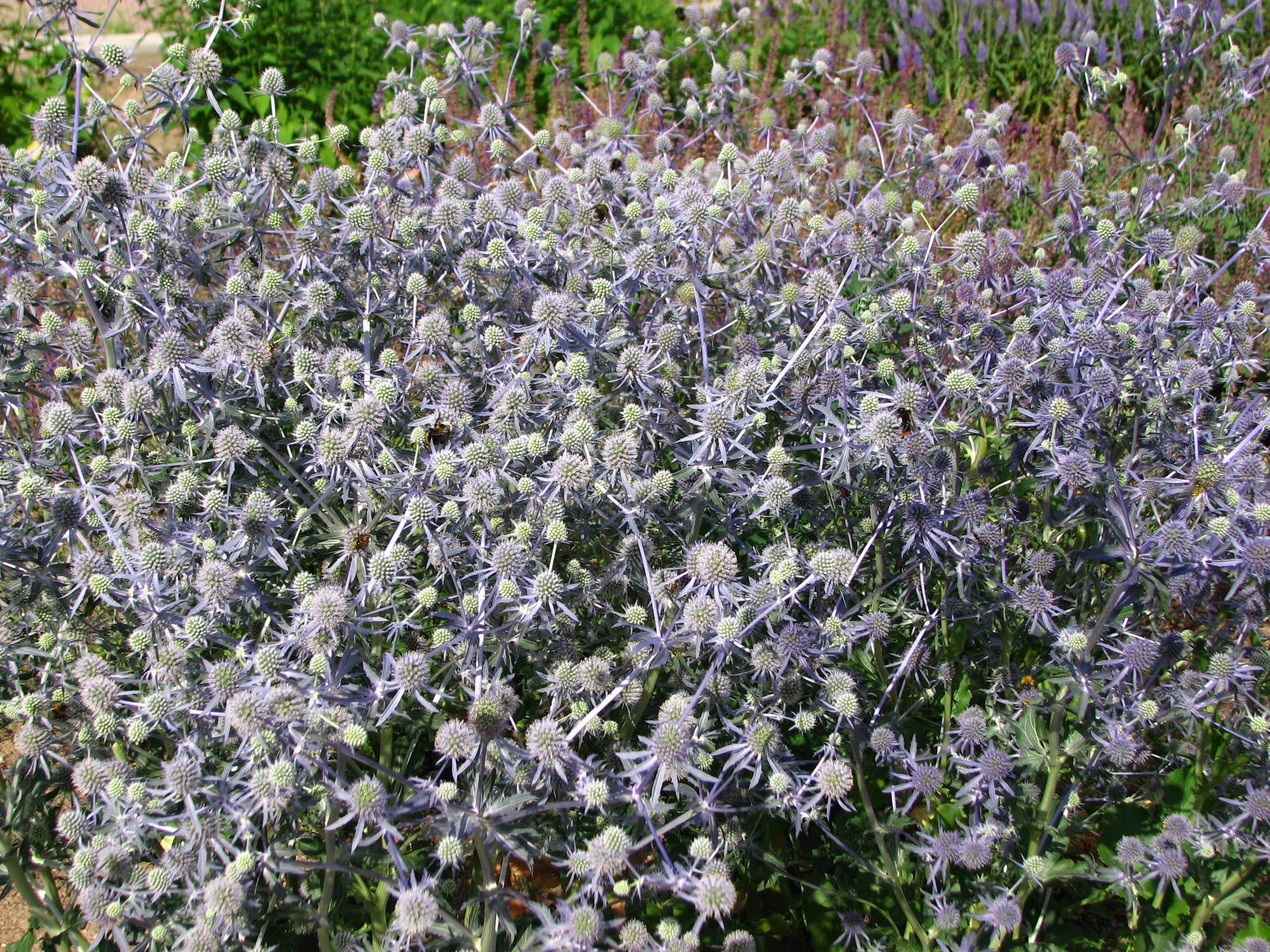 Eryngium planum. From the collection of the Main Botanical Garden of Academy of Sciences in Moscow (perennials plot).